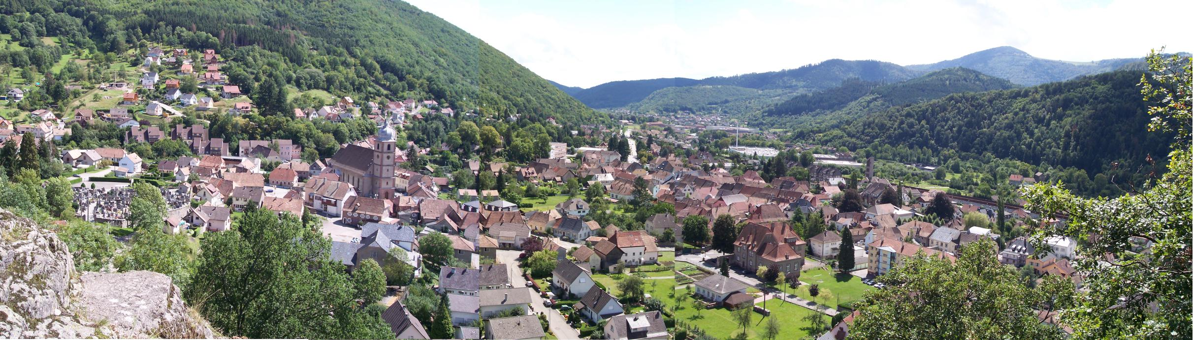 Saint-Amarin (Alsace-Haut-Rhin-France)